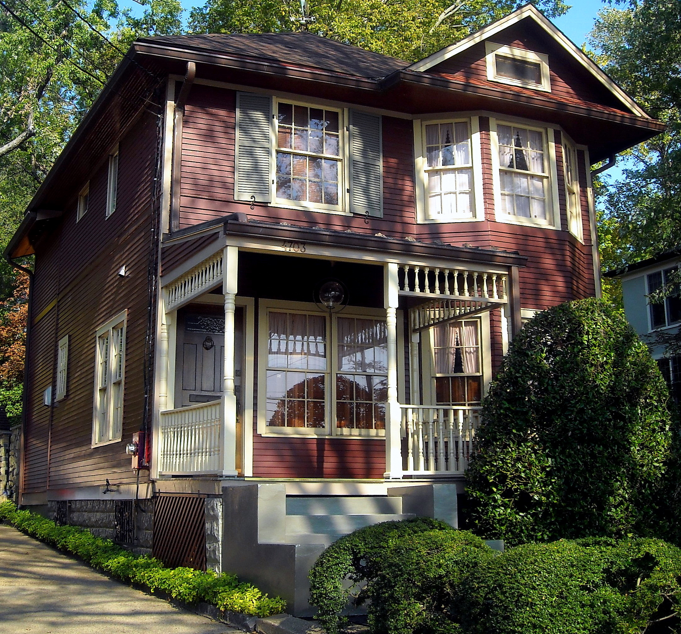 An American Craftsman-style home located at 4703 MacArthur Boulevard, N.W., in the Berkley neighborhood of Washington, D.C.